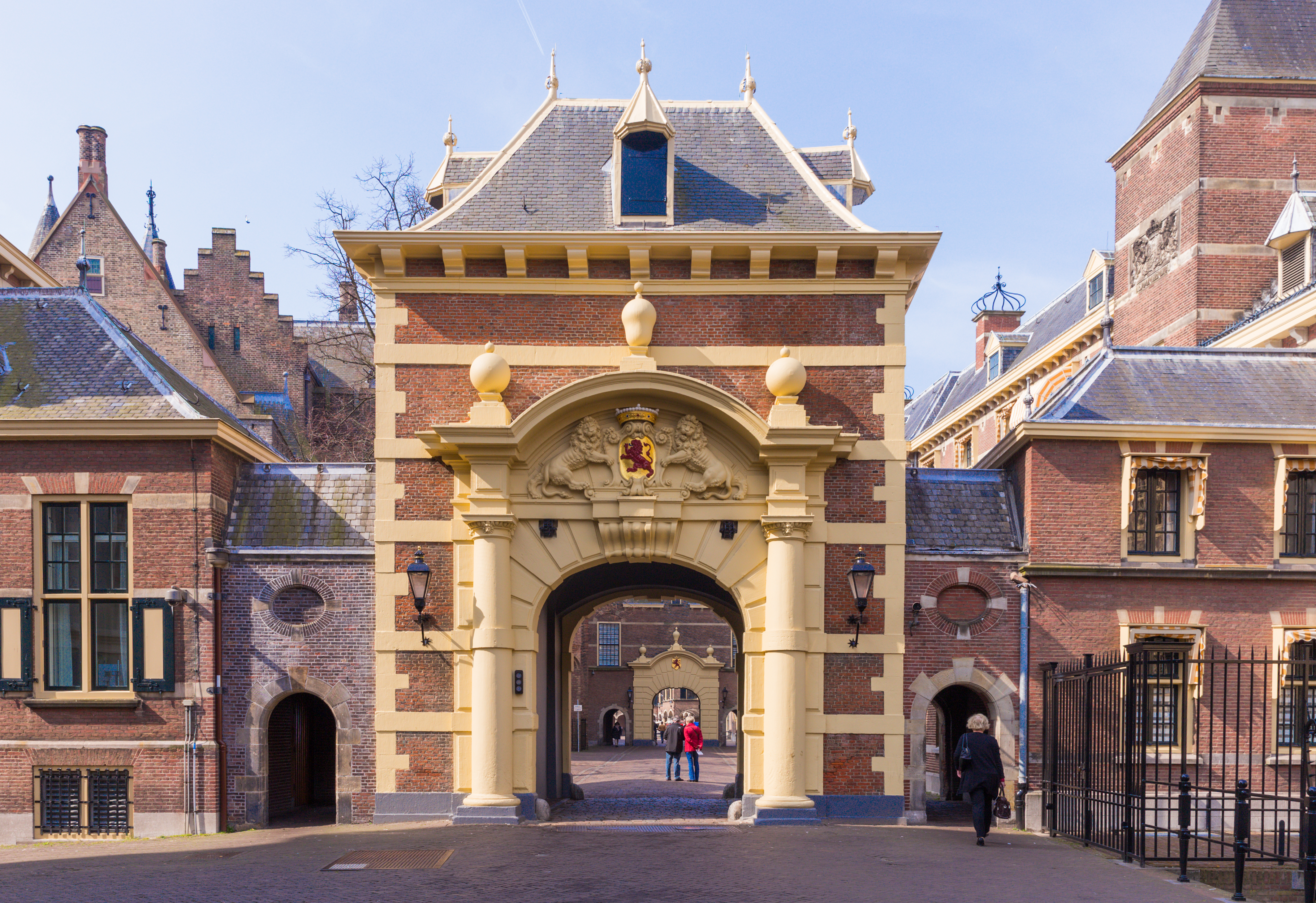 Binnenhof, The Hague